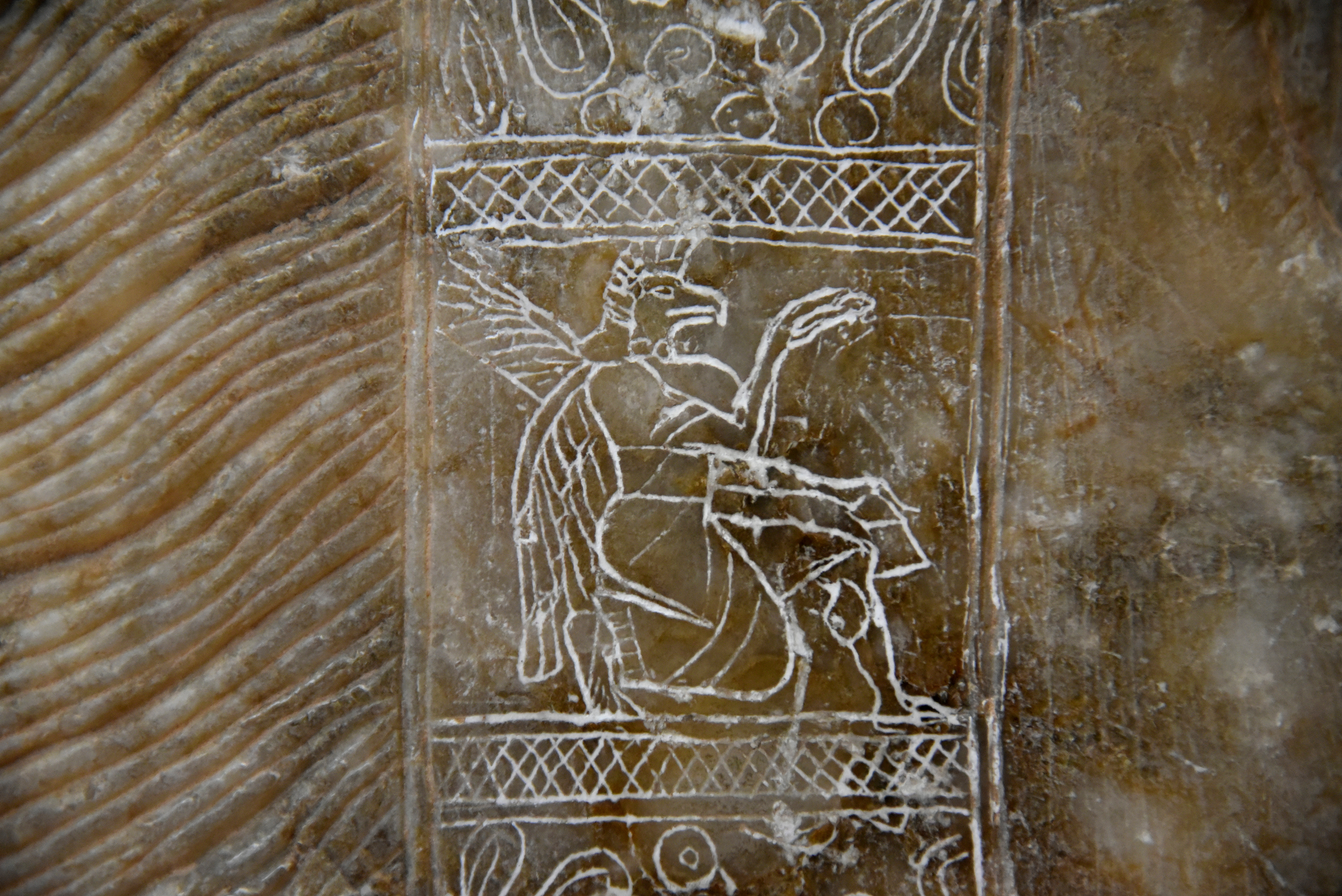 A zoomed-in image of the embroidered dress of a standing male Apkallu, depicting a kneeling winged eagle-headed Apkallu. Alabaster bas-relief. From the North-West Palace at Nimrud (ancient Kalhu), Northern Mesopotamia, Iraq. Neo-Assyrian Period, reign of Ashurnasirpal II, 883-859 BCE. Ancient Orient Museum, Istanbul.